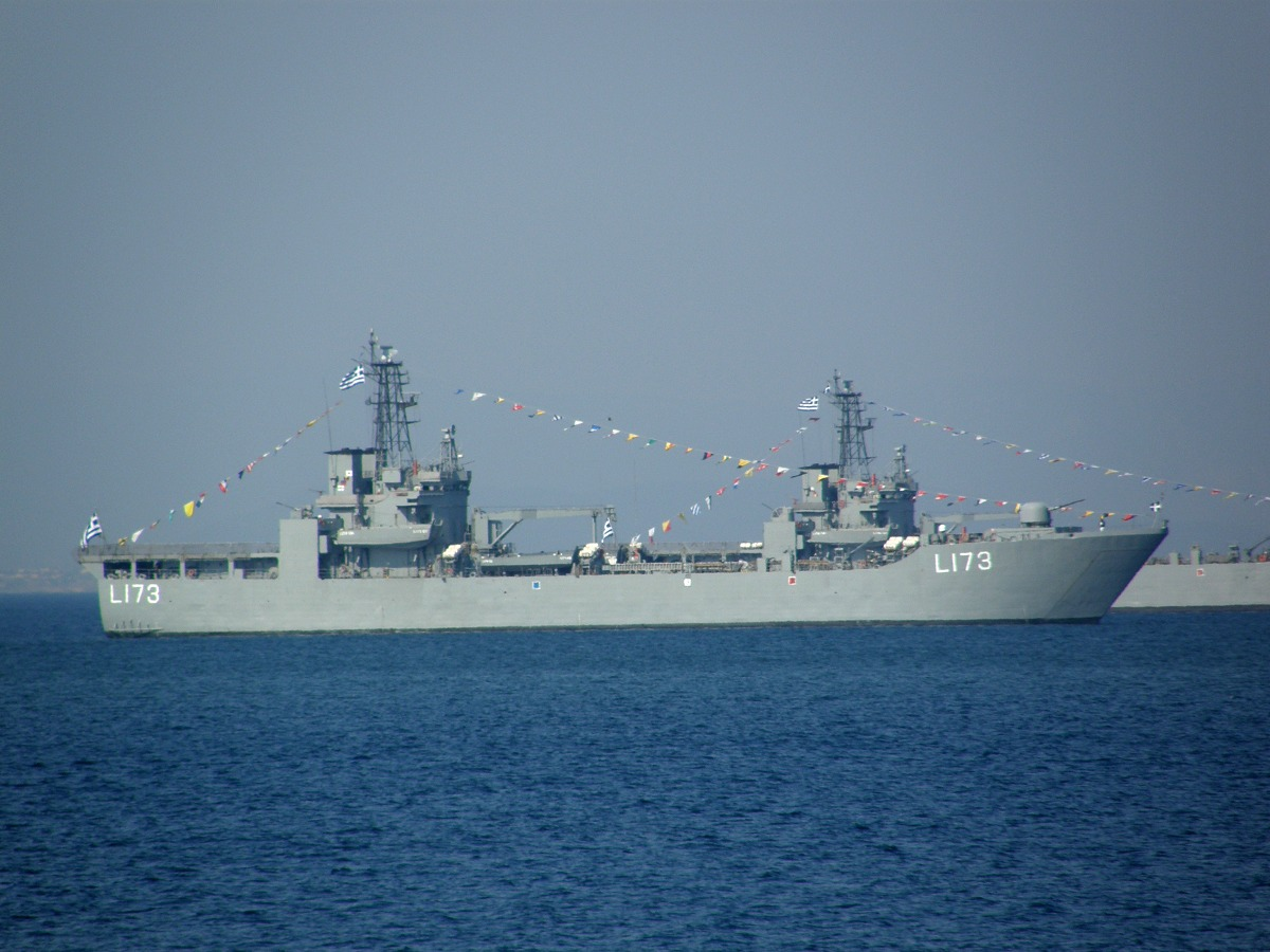 Hellenic Navy Jason class LST L-173 HS Chios (Α/Γ Χίος) at Phaleron Bay